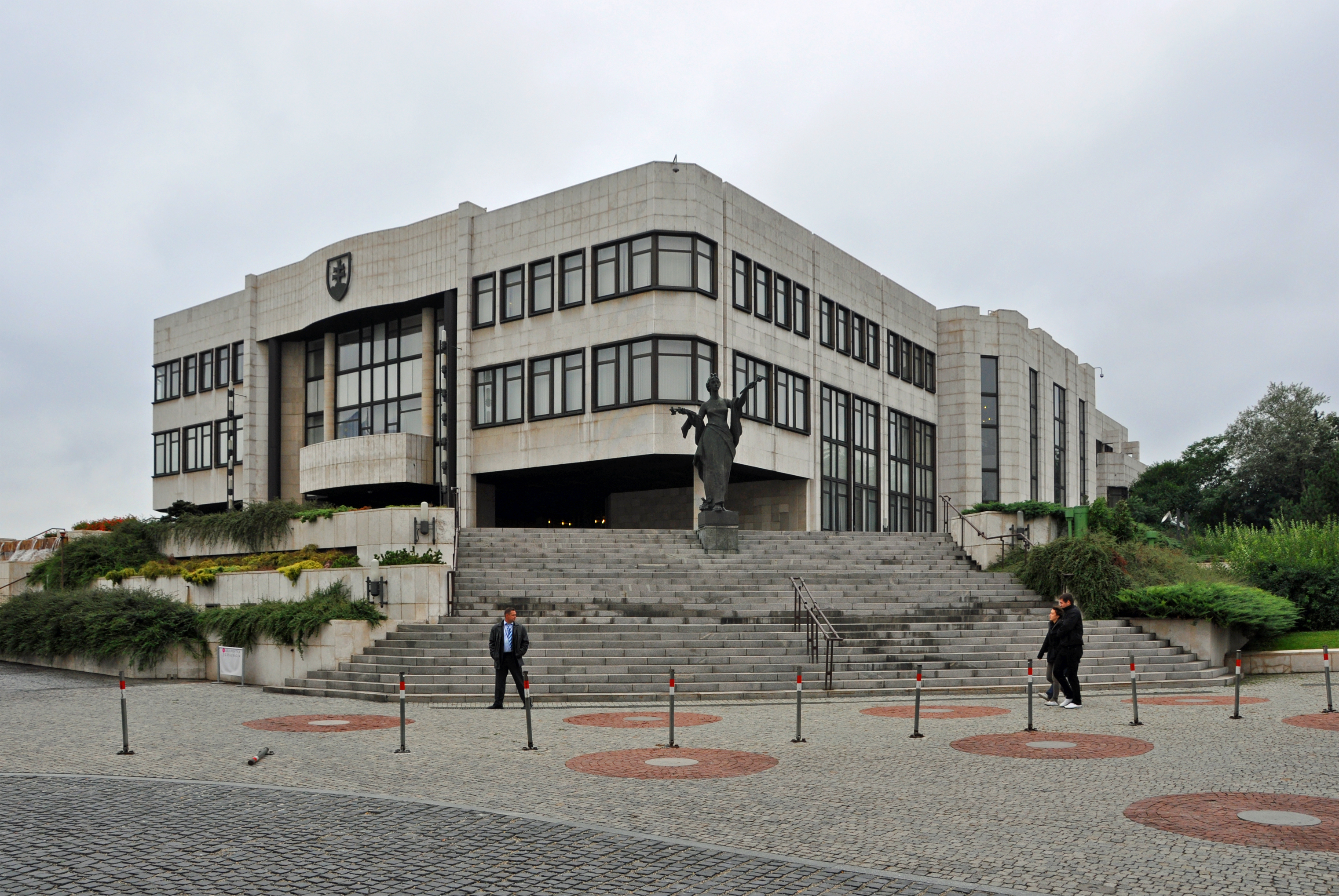 Bratislava (Slovakia): the House of Parliament (Národná rada SR)